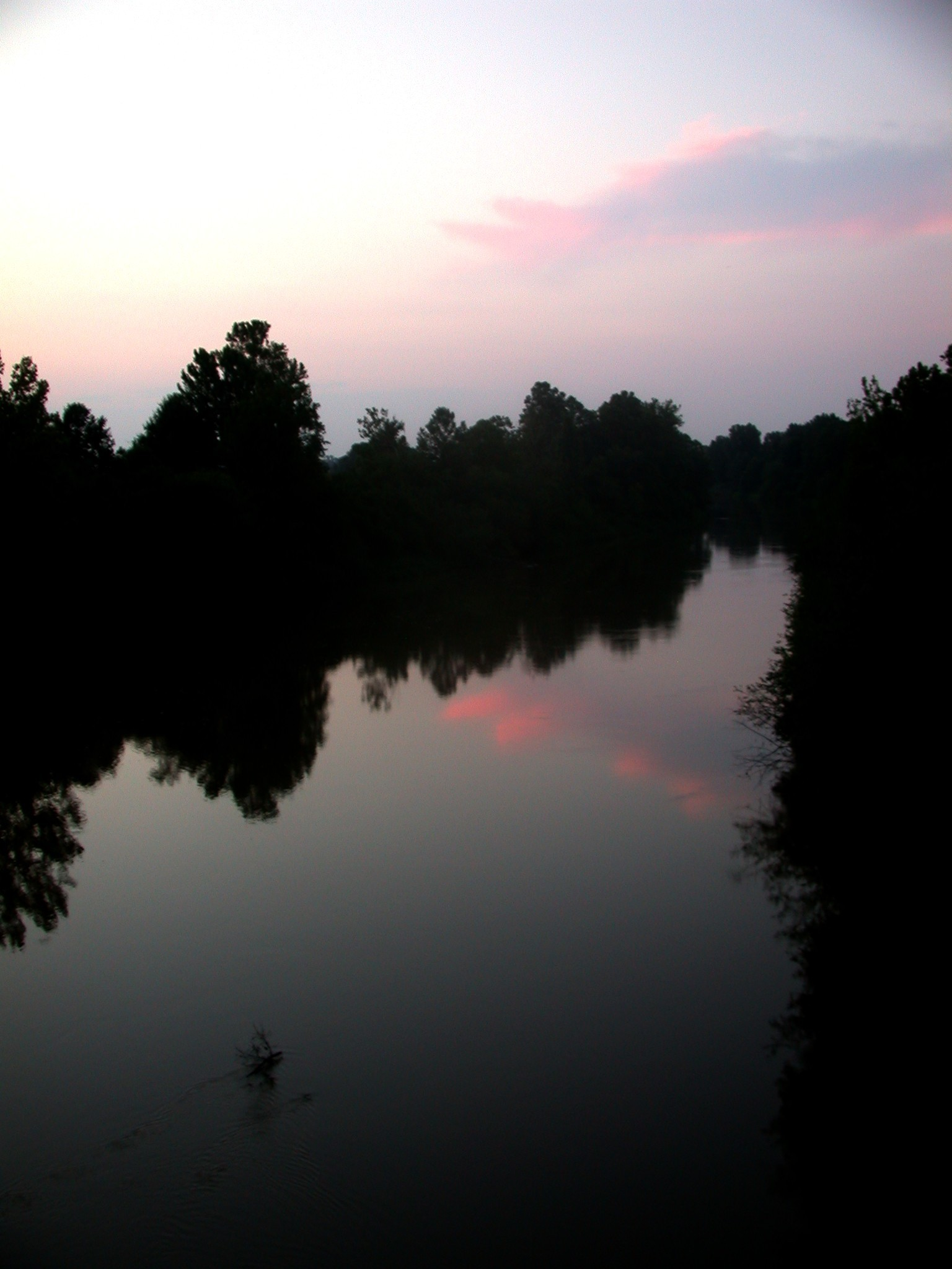 Tallahatchie River.